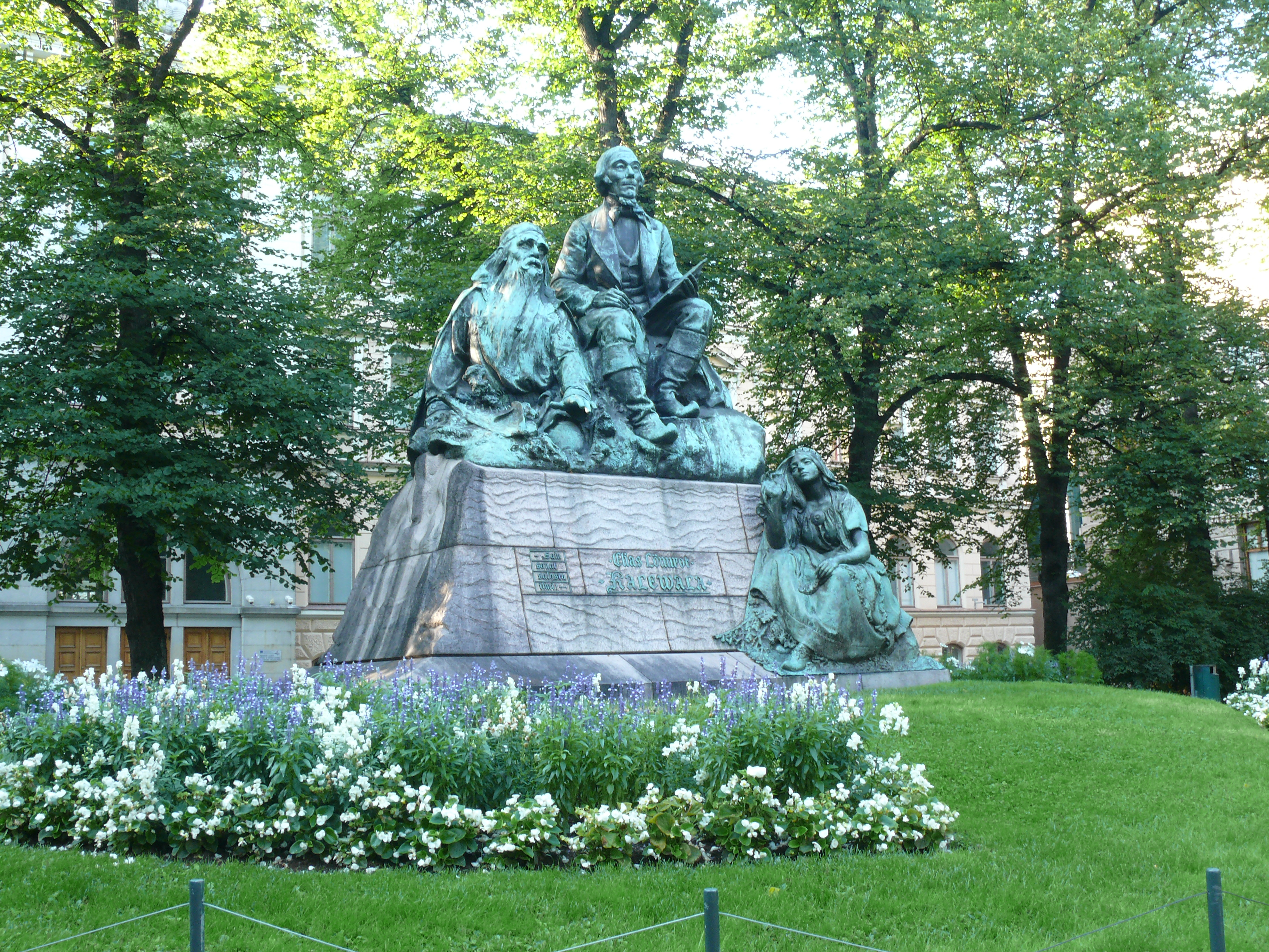 Elias Lönnrot and Kalevala heroes on the monument by Emil Wikström in Helsinki